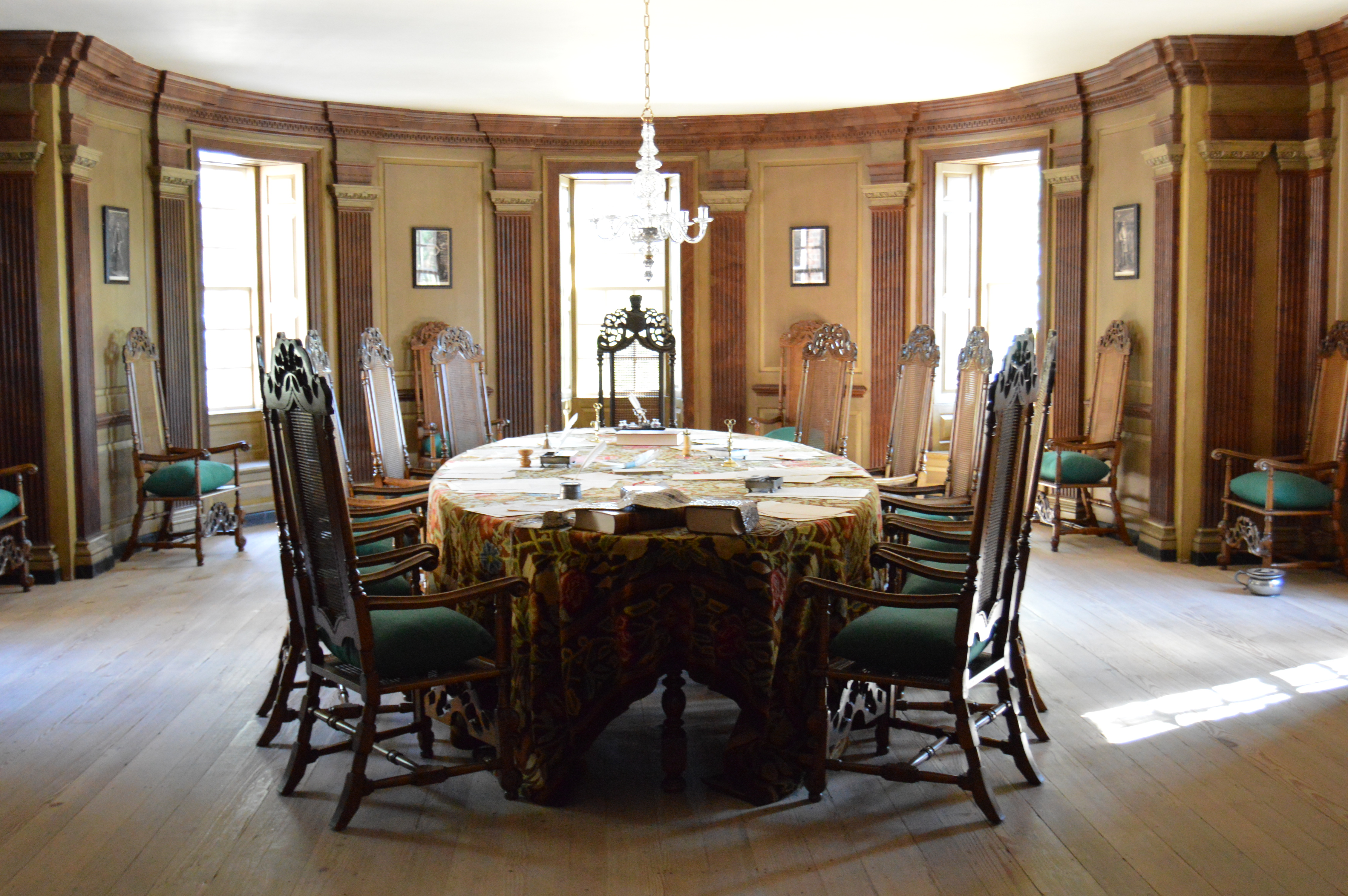 Inside the Capital - Colonial Williamsburg